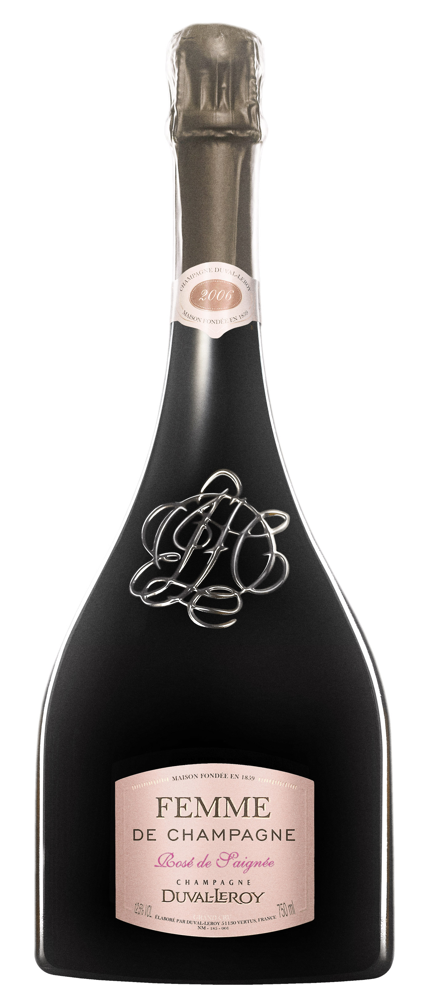 Femme de Champagne